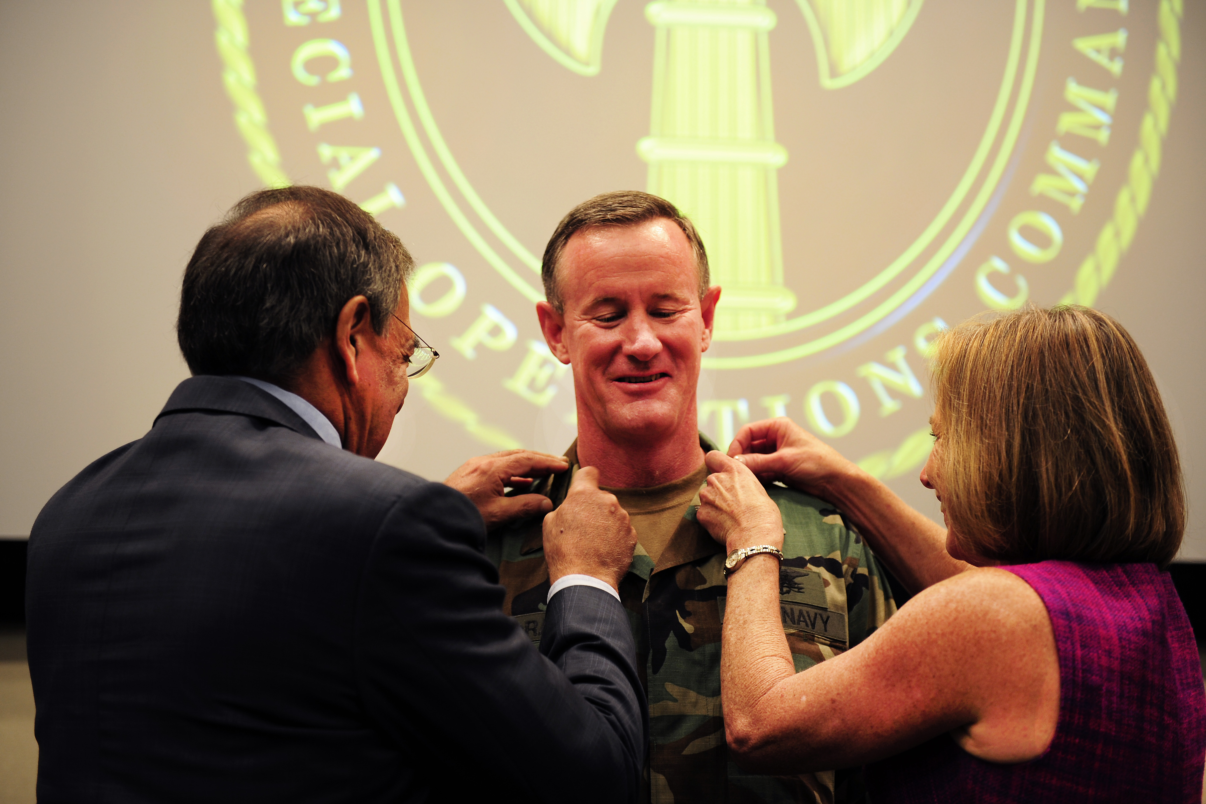 Defense Secretary Leon E. Panetta affixes Navy Adm. William H. McRaven's new rank as a four-star admiral along with McRaven's wife at a U.S. Special Operations Command ceremony at MacDill Air Force Base, Fla., Aug. 8, 2011.